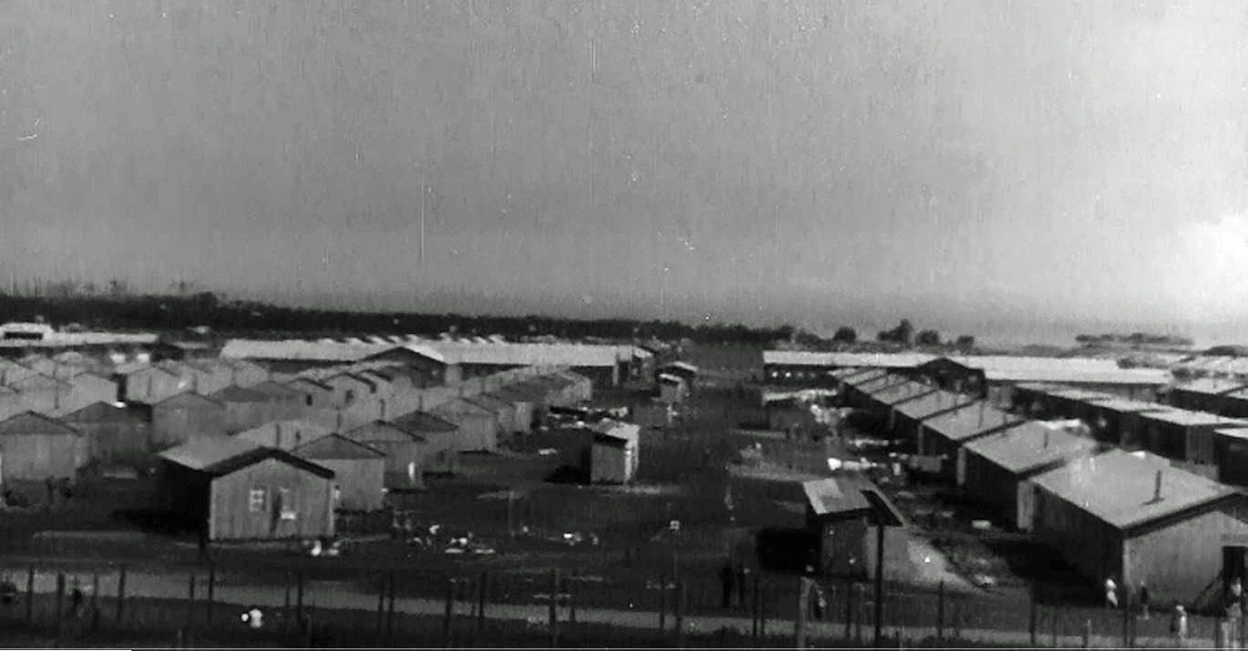 Latrines at the refugees Camp Kloevermarken in Kopenhaven Danmark. Restored Photo of an Image at the Rigsarchivet Kopenhaven